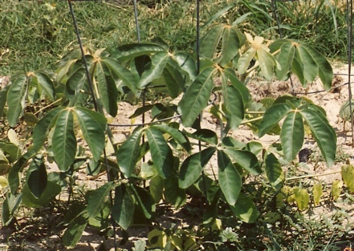 Picture of a year-old Mongongo seedling